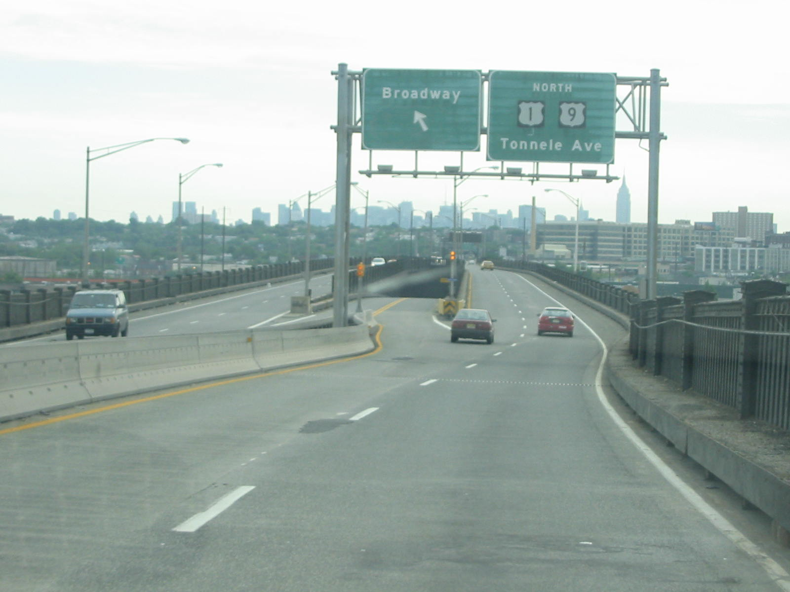 Northbound on the Pulaski Skyway at the Broadway exit. Photo taken May 31, 2004 by User:SPUI.